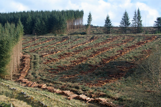 Harvesting site at Caddroun Rig in Wauchope Forest.